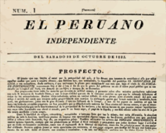 Photo of the first edition of the Official Gazette El Peruano (October 22, 1825)